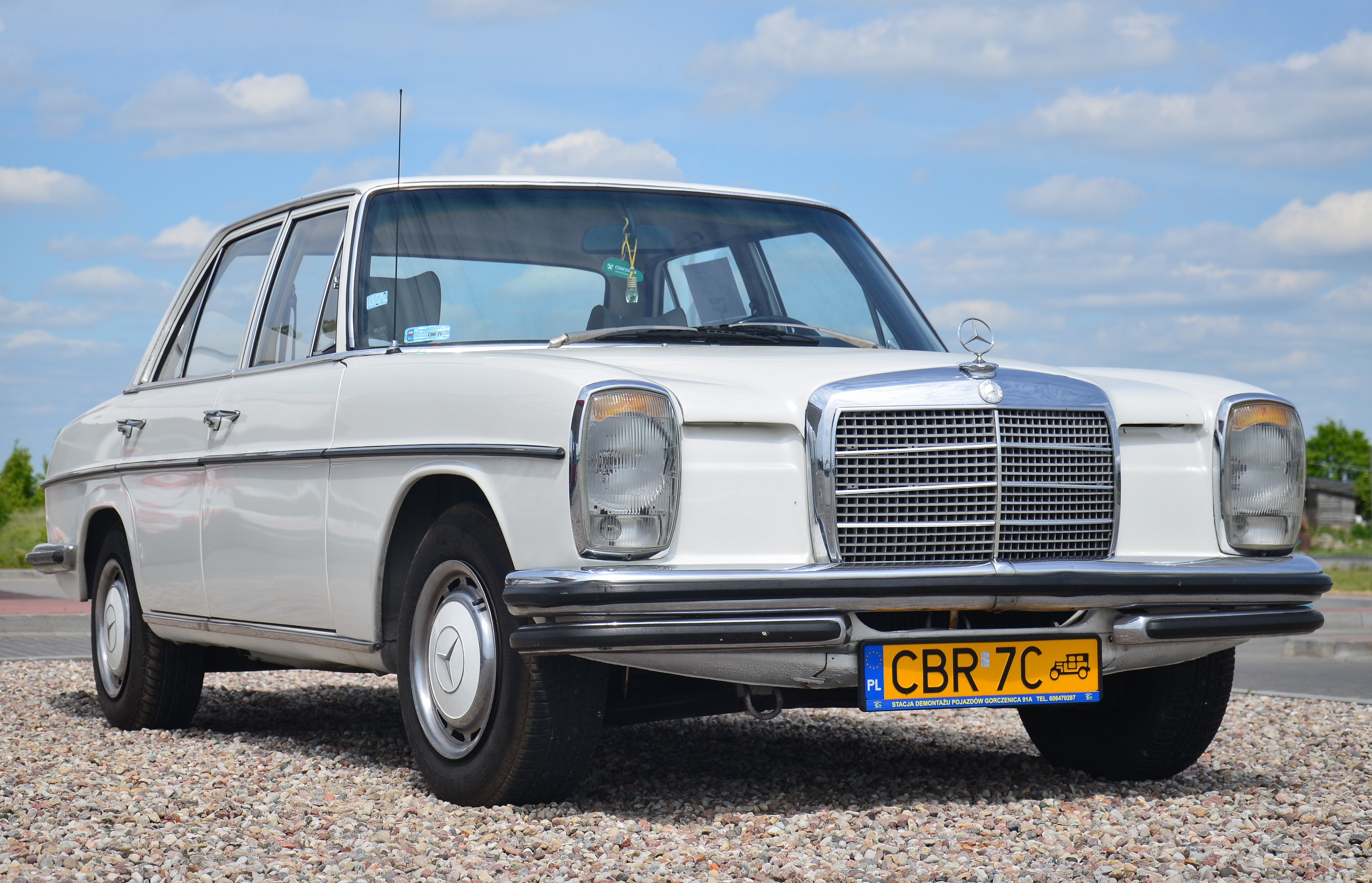 A 1973 model, pre-facelift Mercedes-Benz W115 220D photographed in Brodnica, Poland. All W115 models features four-cylinder engines with the 220D version having a 2.2 L diesel engine.